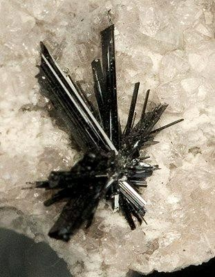 Pseudobrookite Locality: Topaz Mountain, Thomas Range, Juab County, Utah, USA (Locality at ) Size: 2.7 x 2.0 x 1.6 cm. An excellent thumbnail of two radiating sprays of metallic-bright pseudobrookite needles aesthetically set in a quartz-lined vug. The aesthetic, larger spray is 8 mm across. Ex. Allan Young Collection, who has won the prestigious Desautels Award for Best Rocks at the Tucson Show with thumbnails.